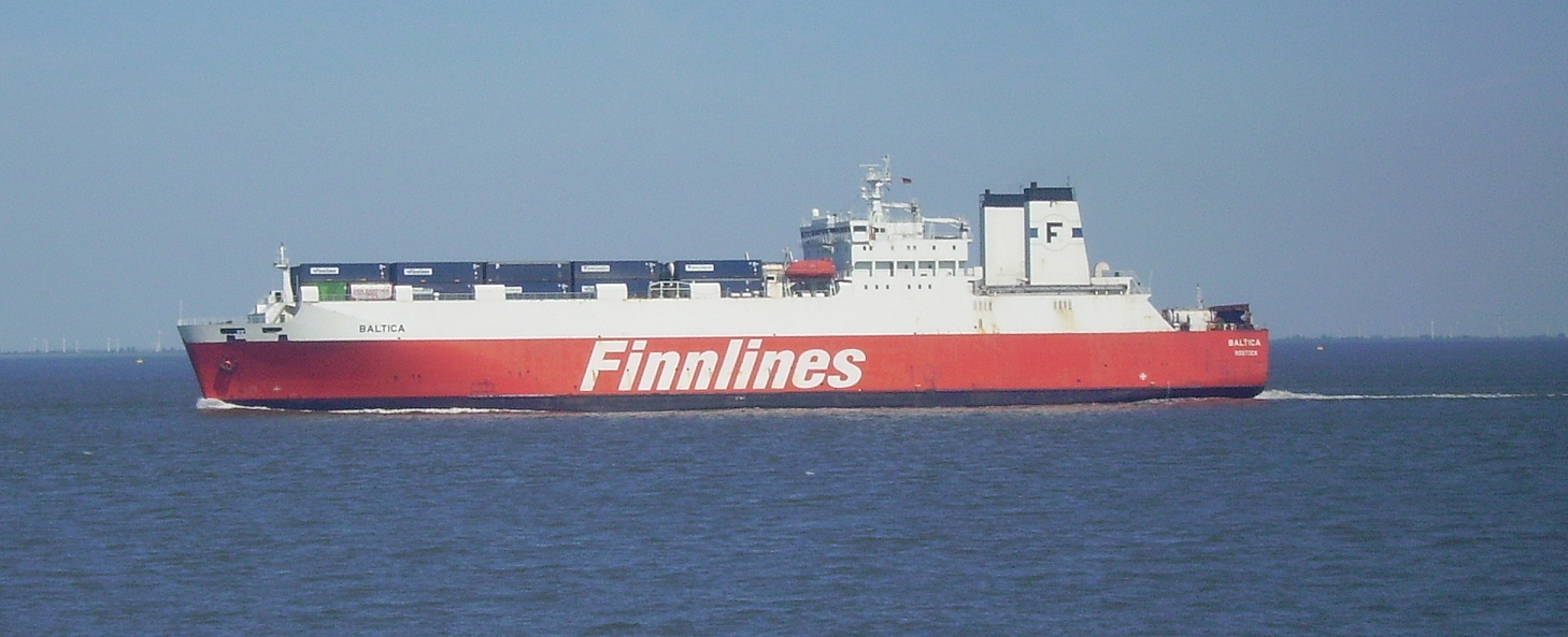 Roll-on/roll-off ship "Baltica" of Finnlines IMO Number: 8813154 MMSI Number: 218032000 Callsign: DEAJ2 Length: 158 m Beam: 26 m